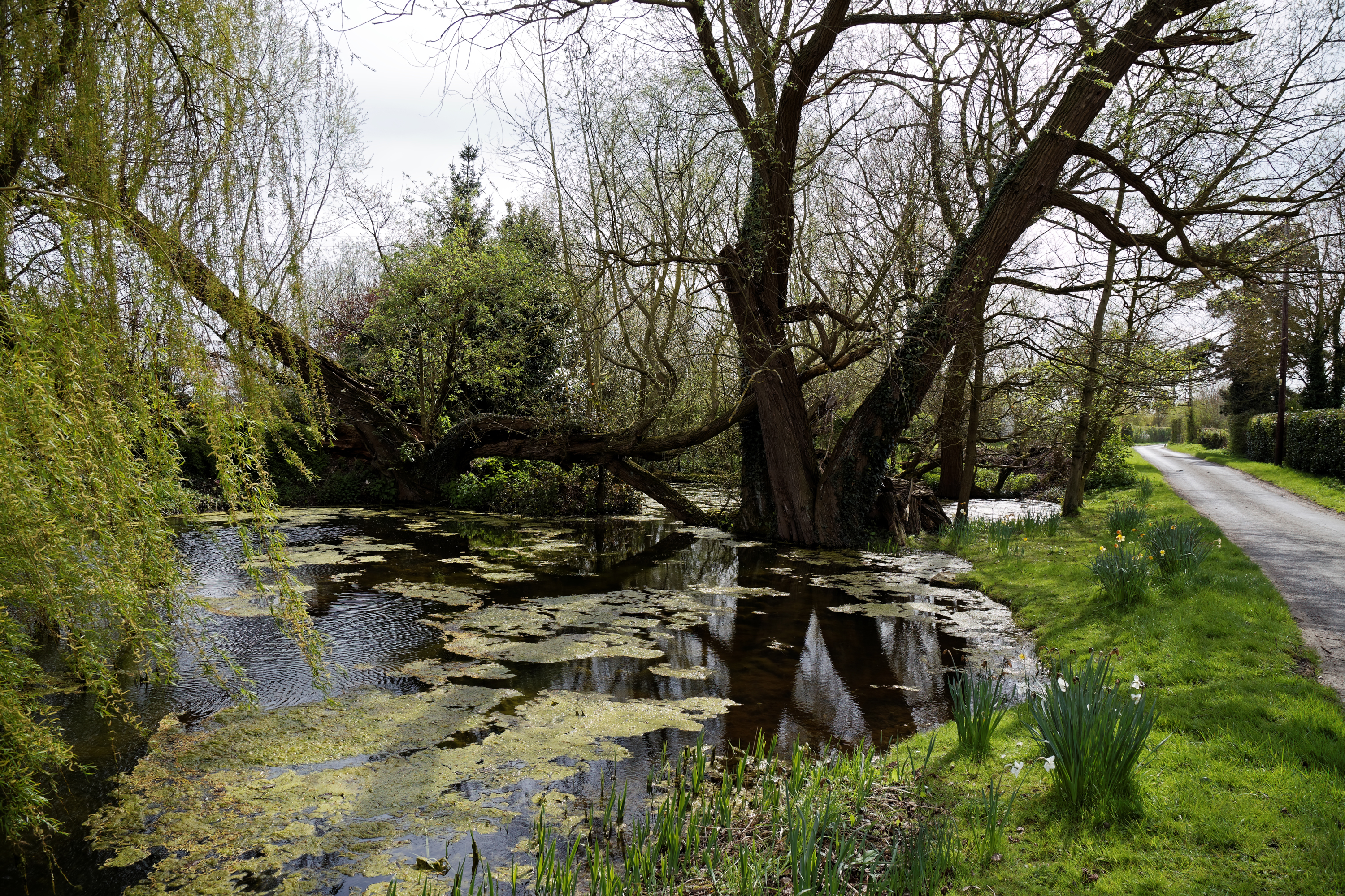 Trees in a pond on a country lane in Skye Green hamlet, in very strong backlight, at Feering civil parish, Essex, England.Camera: Canon EOS 6D with Canon EF 24-105mm F4L IS USM lens.Software: large RAW file lens-corrected, optimized and downsized with DxO OpticsPro 10 Elite, Viewpoint 2, and Adobe Photoshop CS2.